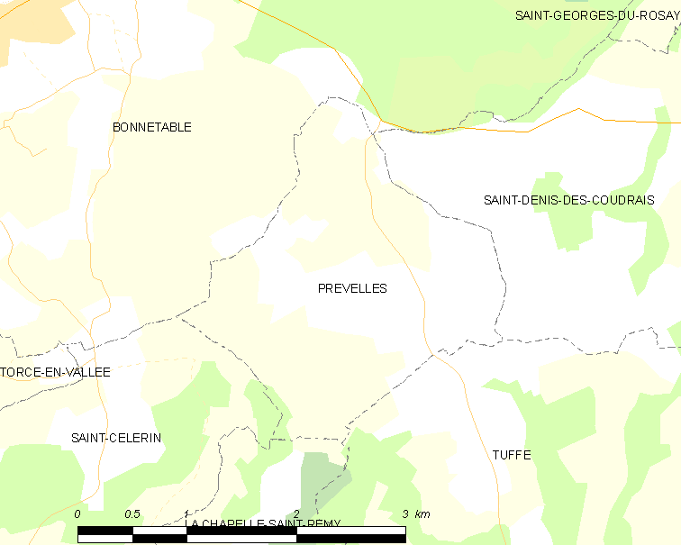 Map of French municipality